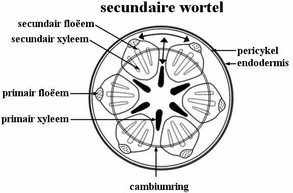 Secondary growth of a root of a dicot (Now with Dutch text)